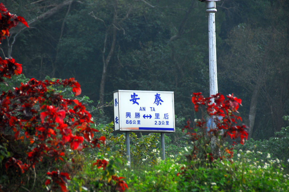 Taian Station(Old) is a train station along Old Mountain Line, an abandoned section of Taichung Line, one of the trunk line of Taiwan Railway Administration. It is located within the boundary of HouLi Township, TaiChung County. Today the station has been turned into a tourist site rather than a transportation infrastructure. This photo shows the platform sign of the station, with an old-fashioned from-right-to-left spelling of station name.